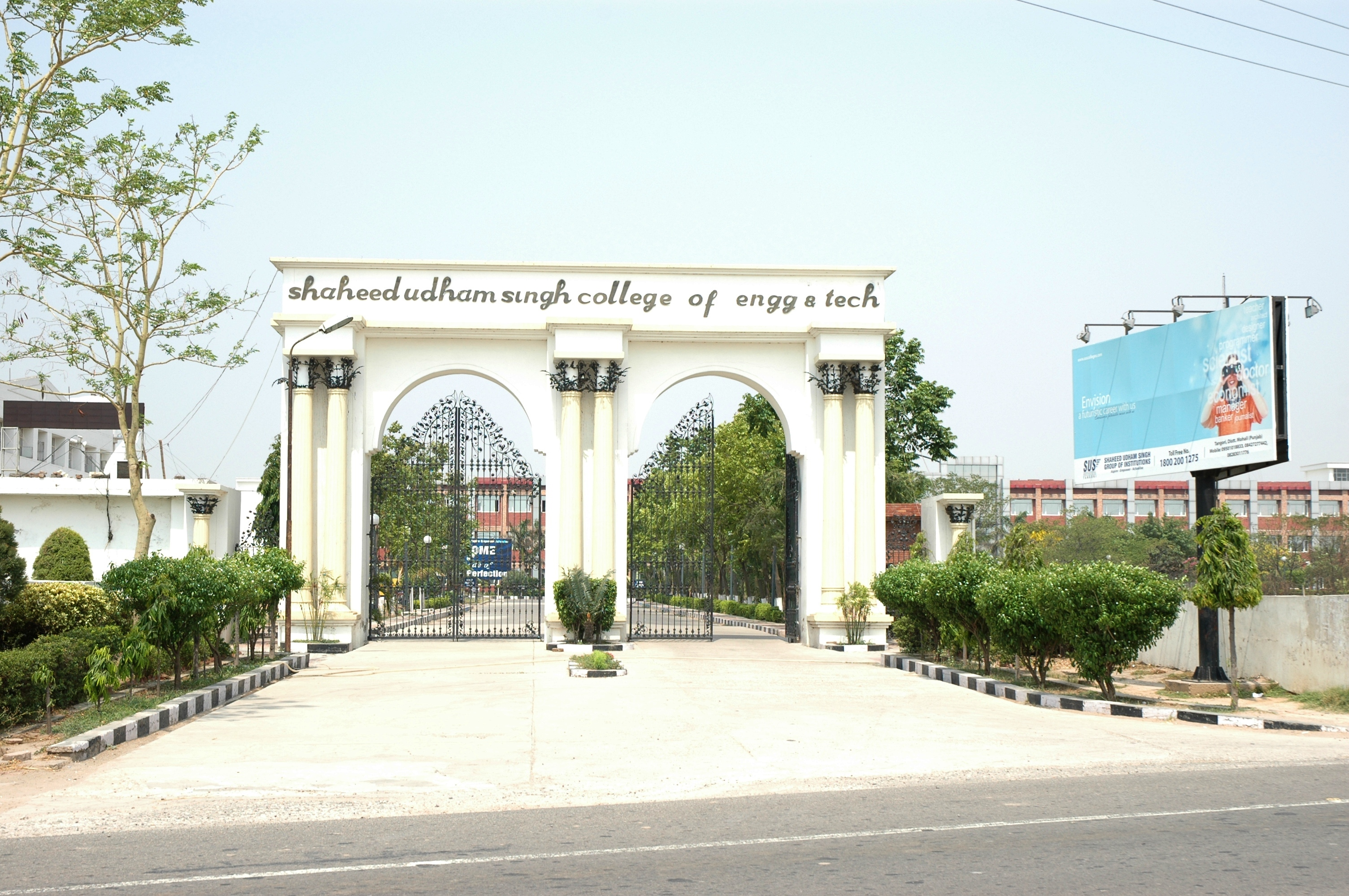 SUSGOI Entry Gate